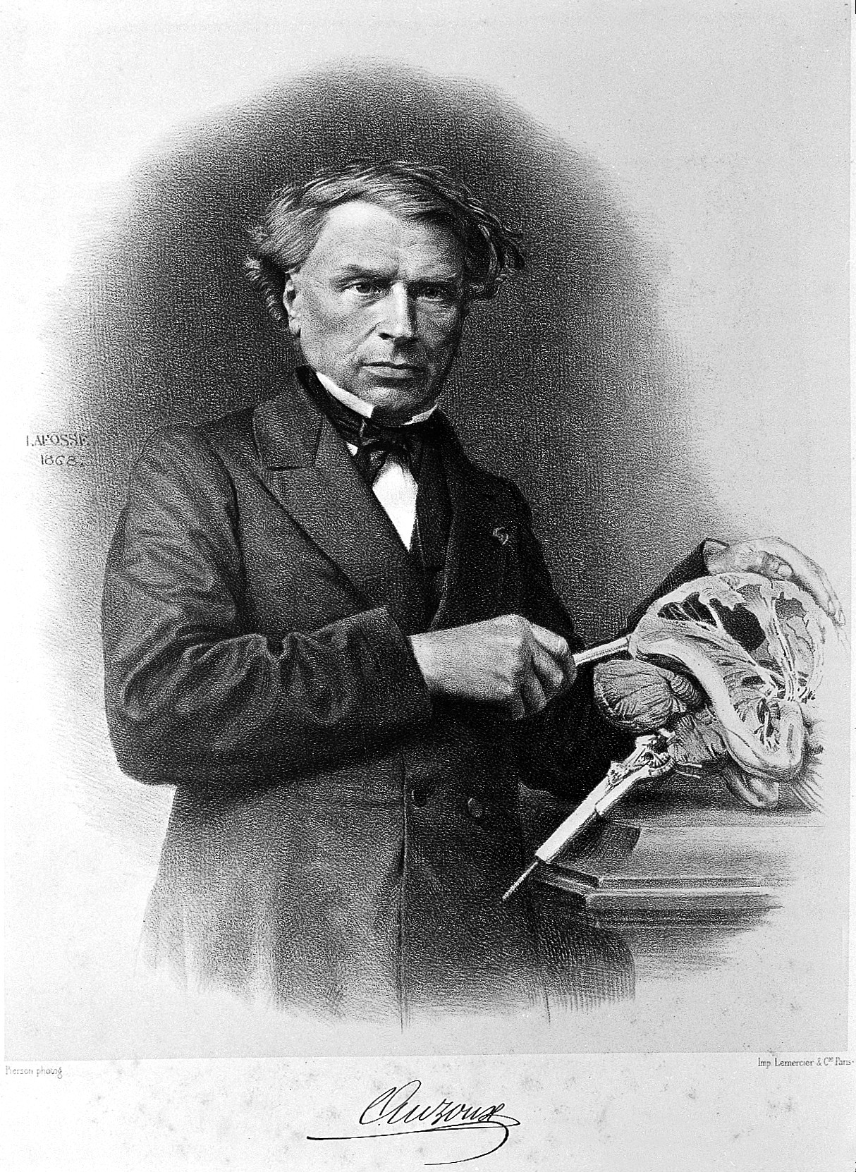 Portrait of Thomas Louis Jerome Auzoux Iconographic Collections Keywords: Anatomy; Thomas Louis Jerome Auzoux; Lafosse